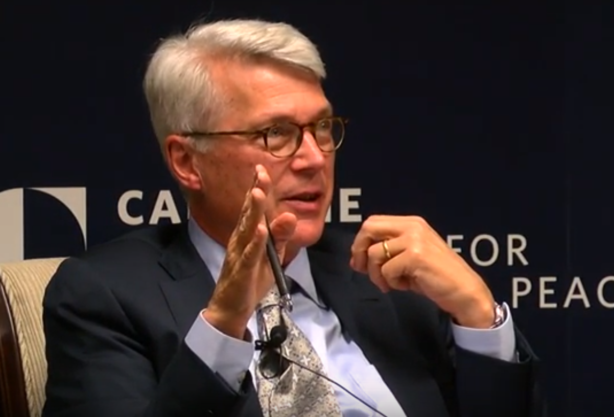 Scott Sagan speaking at a 2018 event hosted by the Carnegie Endowment for International Peace